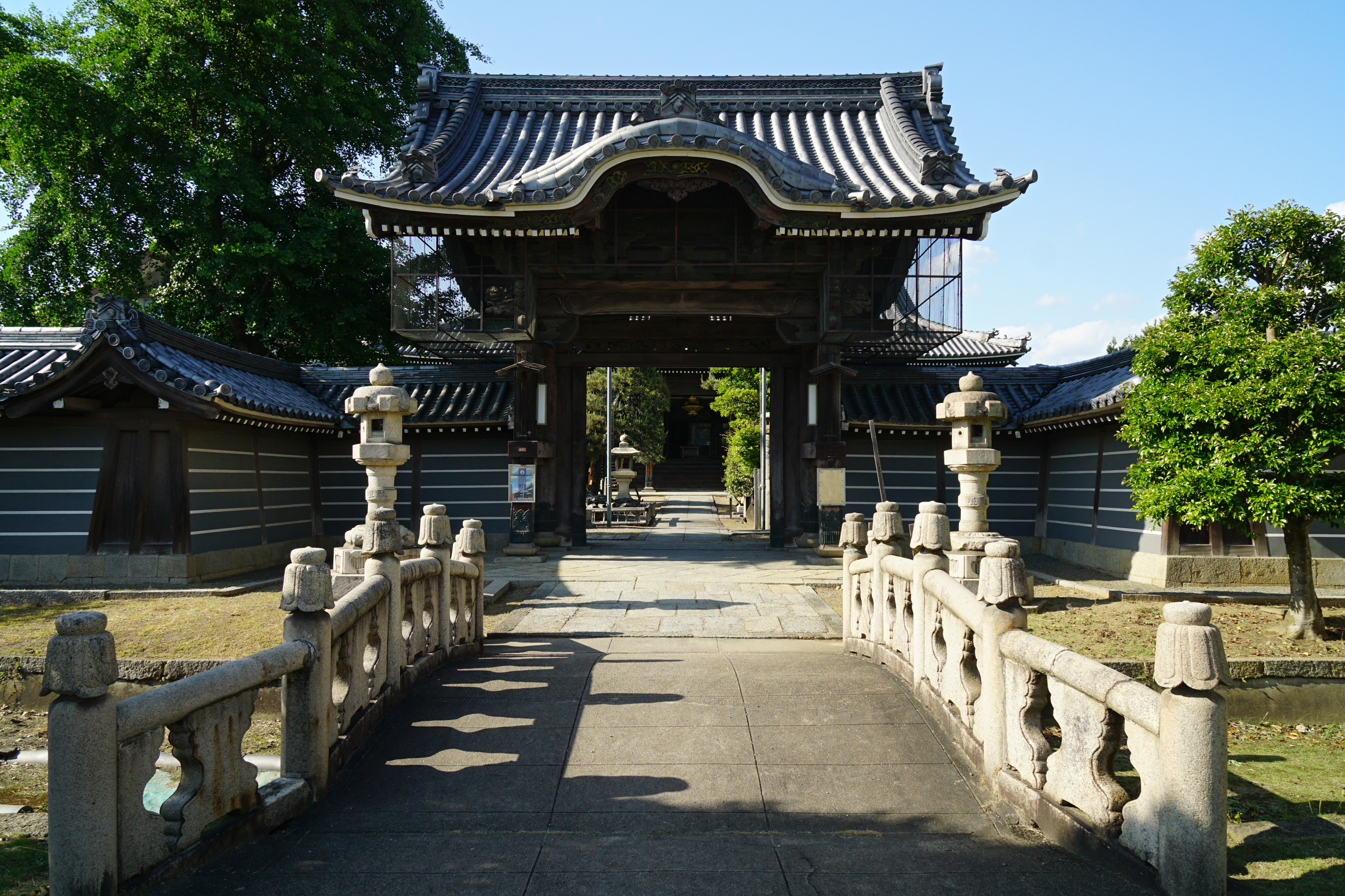 Honsho-ji in Takatsuki, Osaka prefecture, Japan